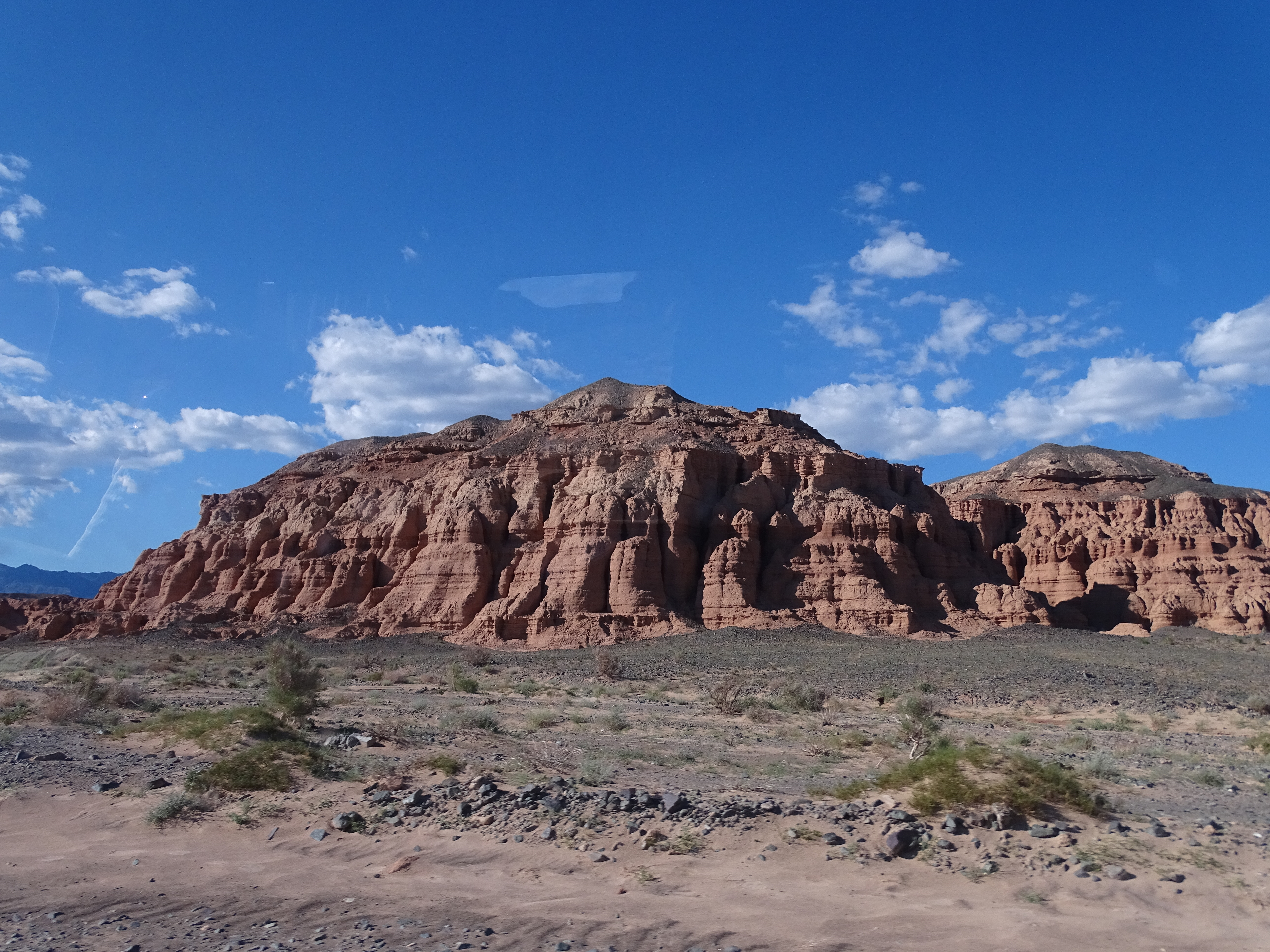 National Park Gobi Gurvansaikhan - formations in the Nemegt